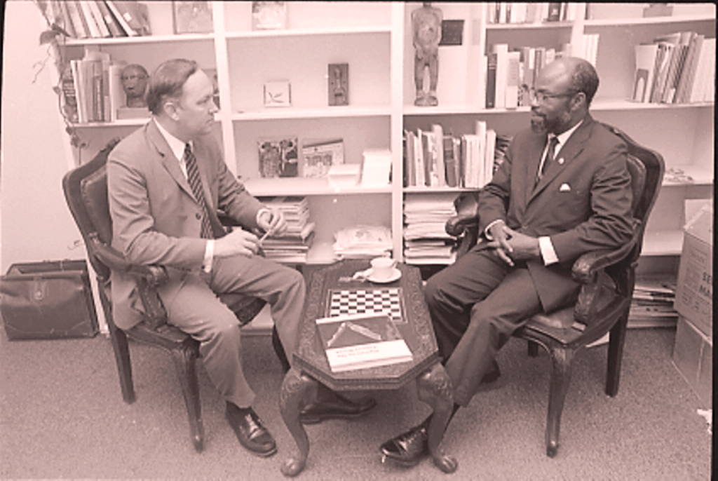 Dr, Eni Njoku, Vice-Chancellor of the University of Biafra